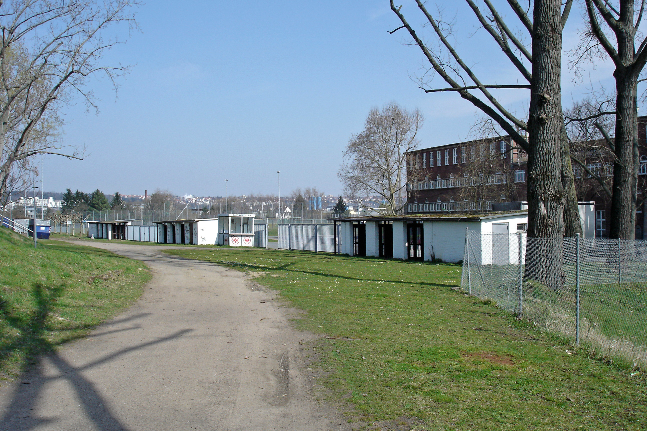 Sports ground Stadium at Riederwald of Eintracht Frankfurt in the borrough of Seckbach in Frankfurt, Hesse, Germany